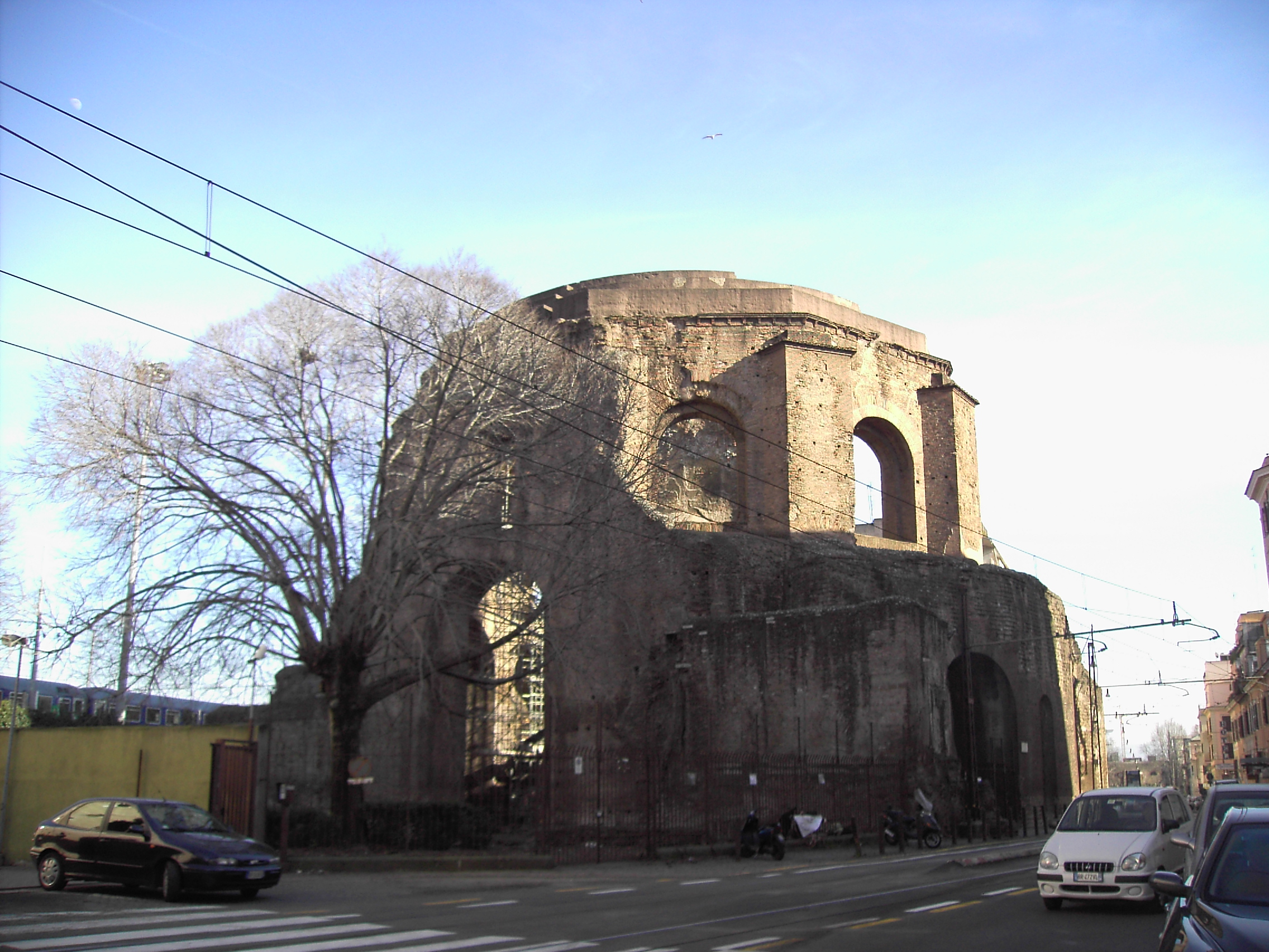 Rome, the so-called "Temple of Minerva Medica", (actually a nymphaeum from the Ancient Roman Horti Liciniani): external view.